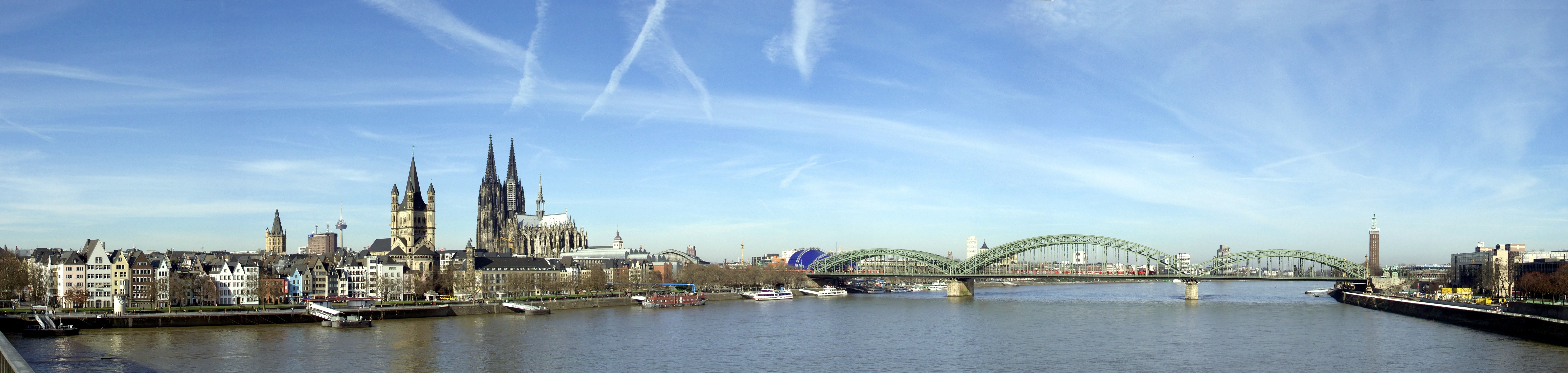 Cologne - Panoramic view from "Deutzer bridge" over the ancient town, Groß St. Martin, Cologne Cathedral, Hohenzollernbrücke to the scyscraper KölnTriangle in Deutz.